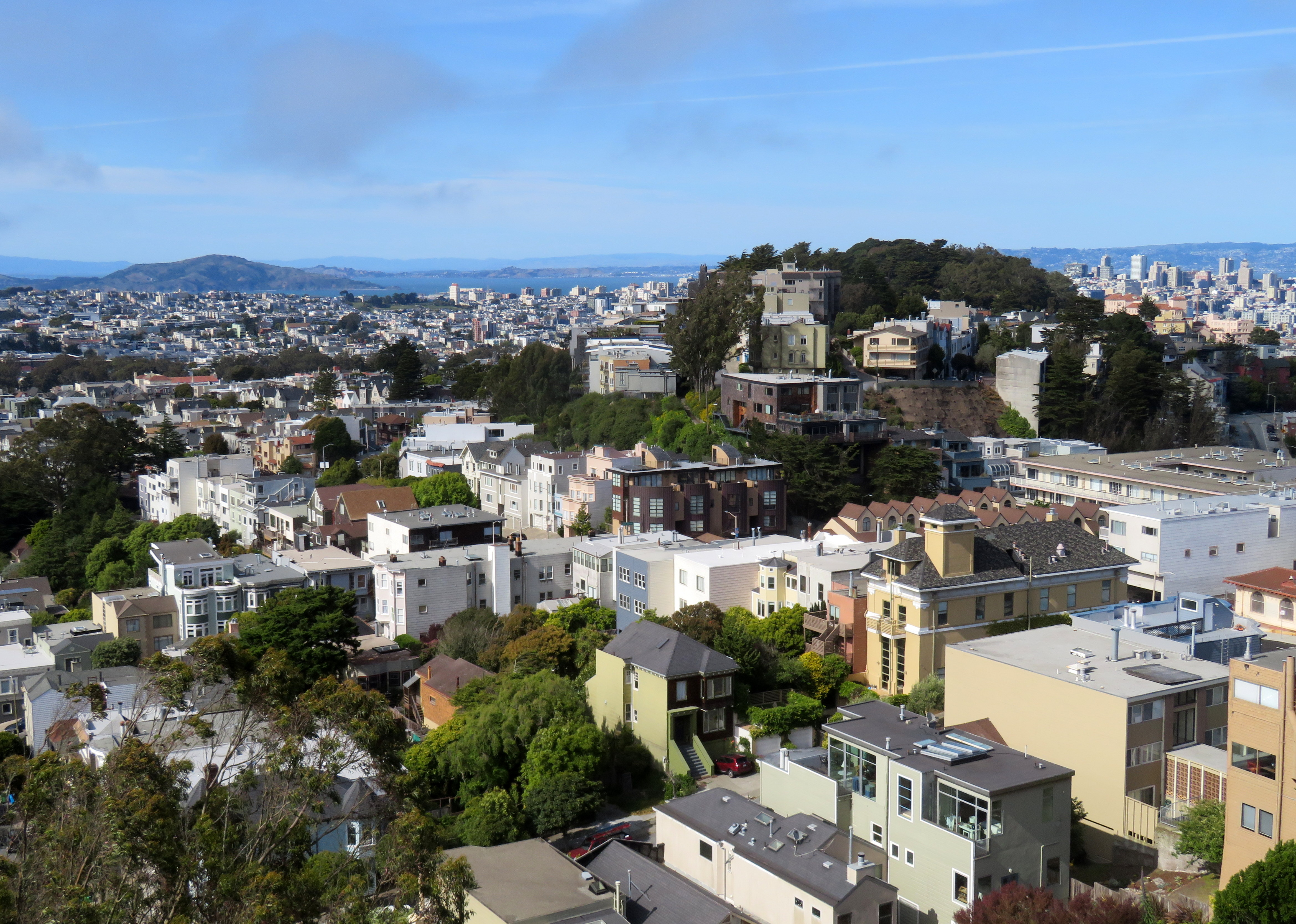 Ashbury Heights and Mount Olympus from Tank Hill in May 2020